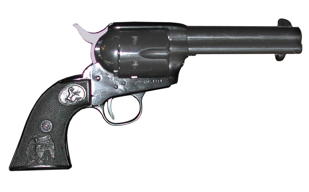 Colt Peacemaker 1873 replica made by A. Uberti